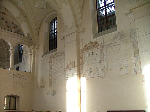 Isaac Synagogue in Kraków